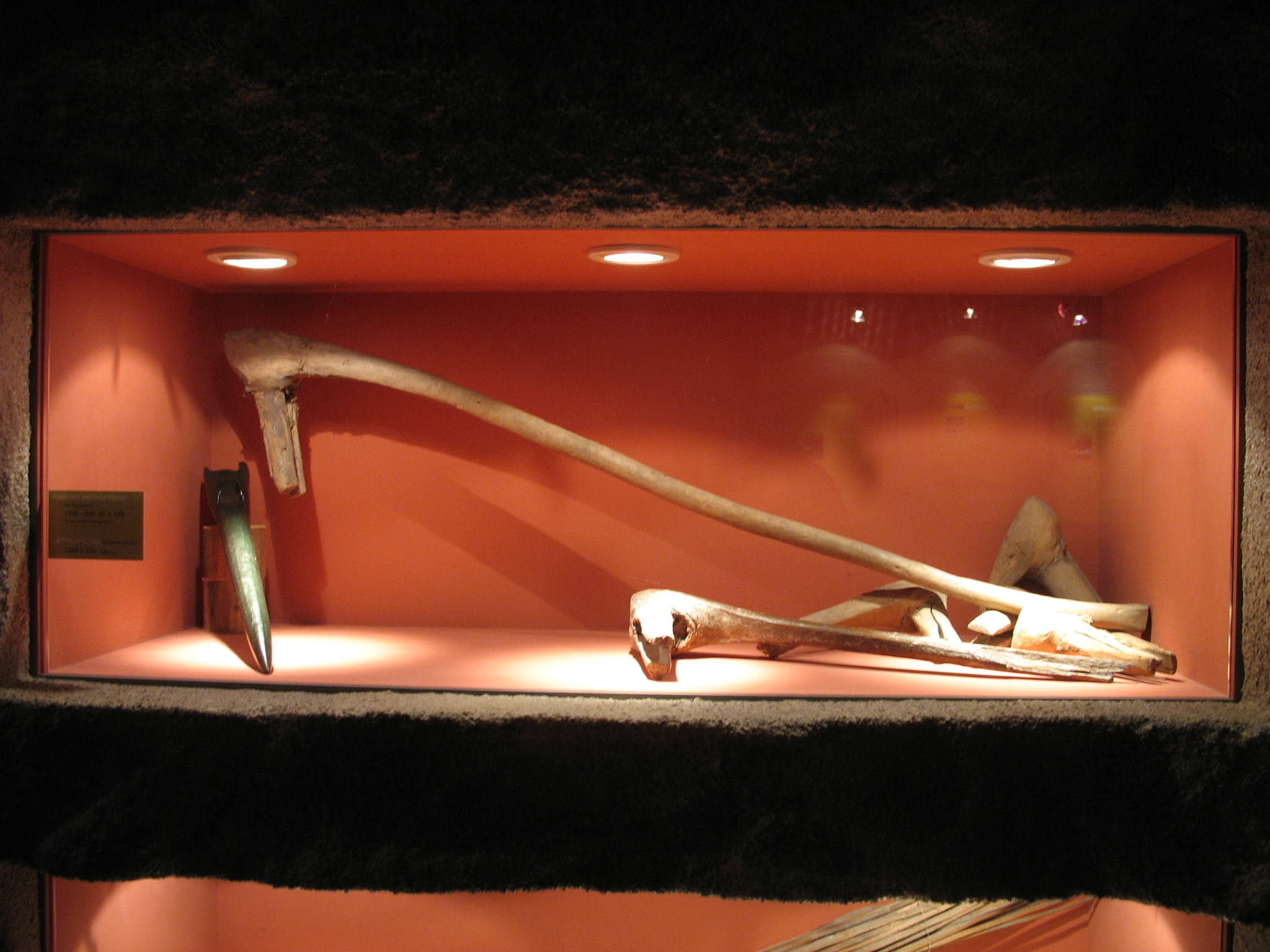 Wooden shafts of pickaxes and other tools for salt mining from the Hallstatt culture. Museum Hallstatt, Austria